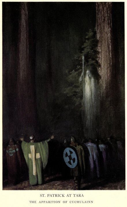 This is a screenshot of an illustration by Maynard Dixon which appeared in the book The Grove Plays of the Bohemian Club published in 1918. Work is out of copyright. The painting illustrates a scene from the Grove Play entitled St. Patrick at Tara, and shows Saint Patrick addressing an apparition among the redwood trees of the Bohemian Grove.